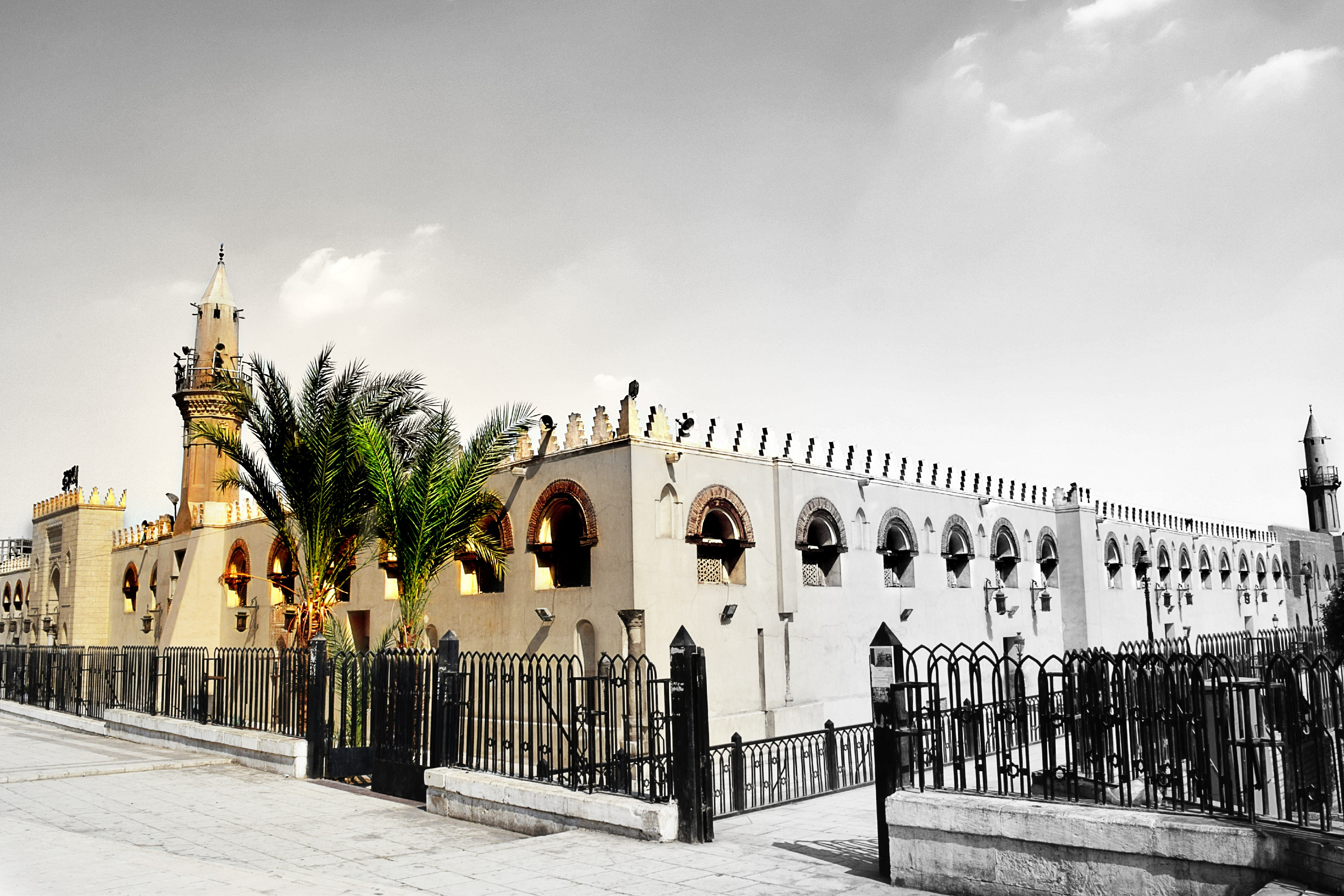 Mosque of Amr ibn al-Aas جامع عمرو بن العاص